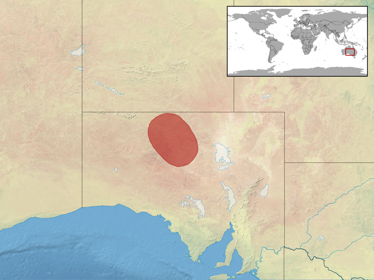 geographic distribution of Ctenophorus tjantjalka (Native: Australia (South Australia))